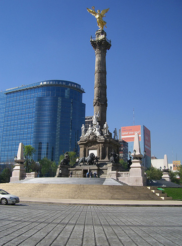 El Ángel de la Independencia statue: street level has sunk below the bottom of the statue.